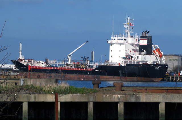 The 'Lagan' at Belfast Asphalt/Bitumen tanker 'Lagan' at Oil Berth 3 in the Musgrave Channel, Belfast. Built in Spain and launched in 2008 the tanker is now Portuguese (Madeiran) flagged.